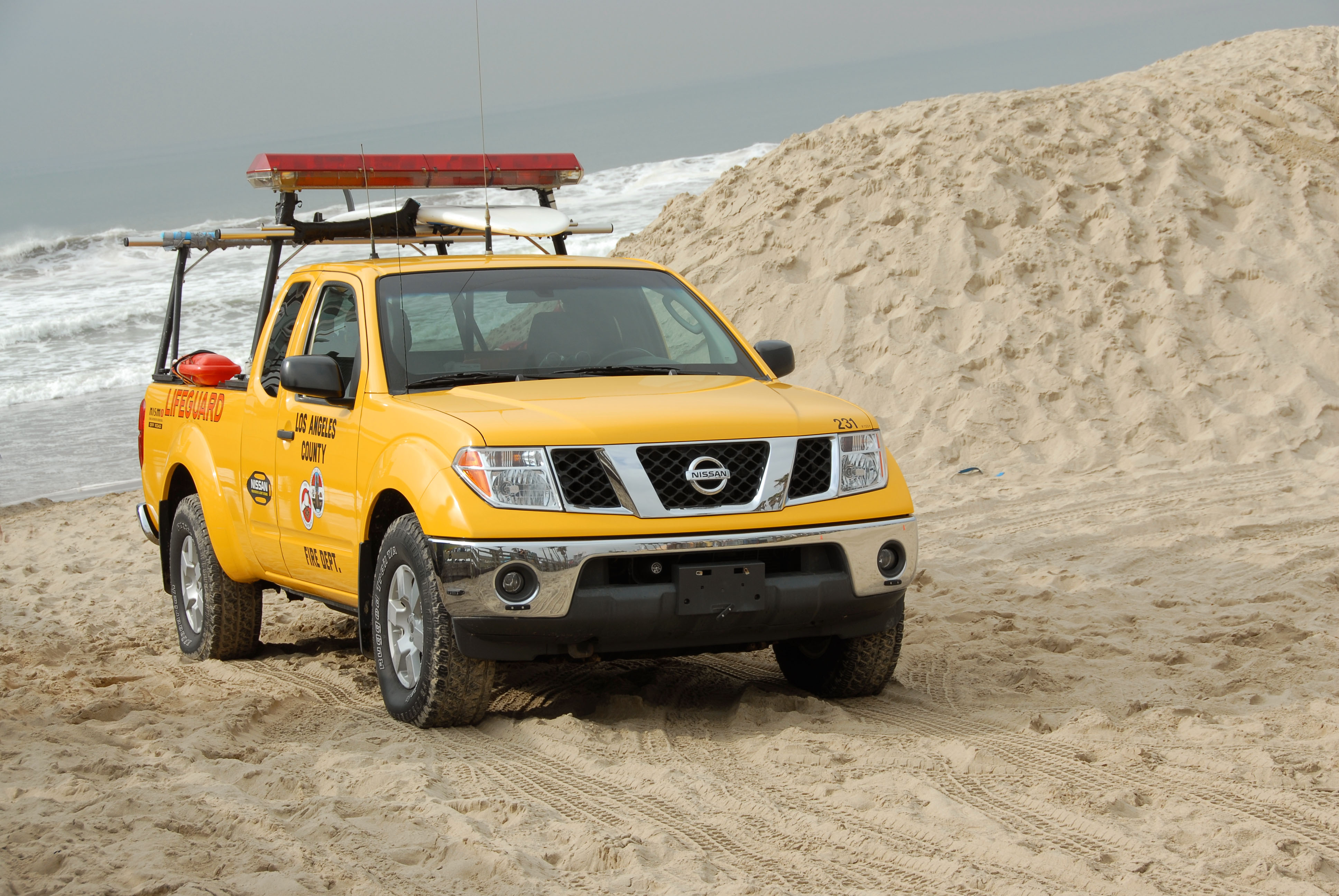 Los Angeles Fire Dept Navara